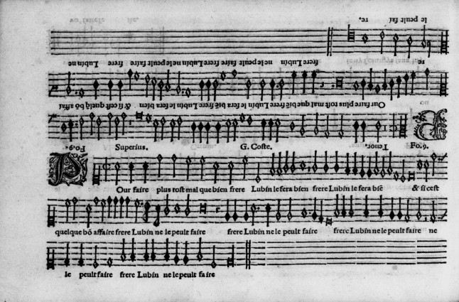 Two parts of Coste's chanson "Pour faire plus tost" in Moderne's "Parangon des chansons", 3e livre, 1538.